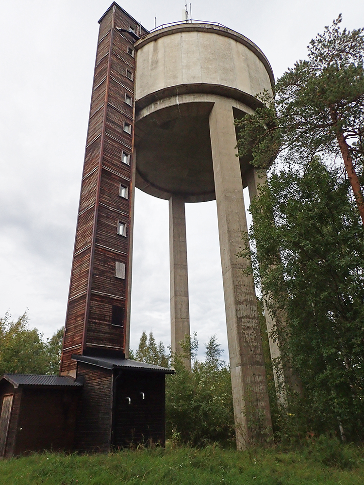 The water tower of Hörnefors.